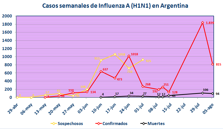 Influenza cases reported per week (only new cases).